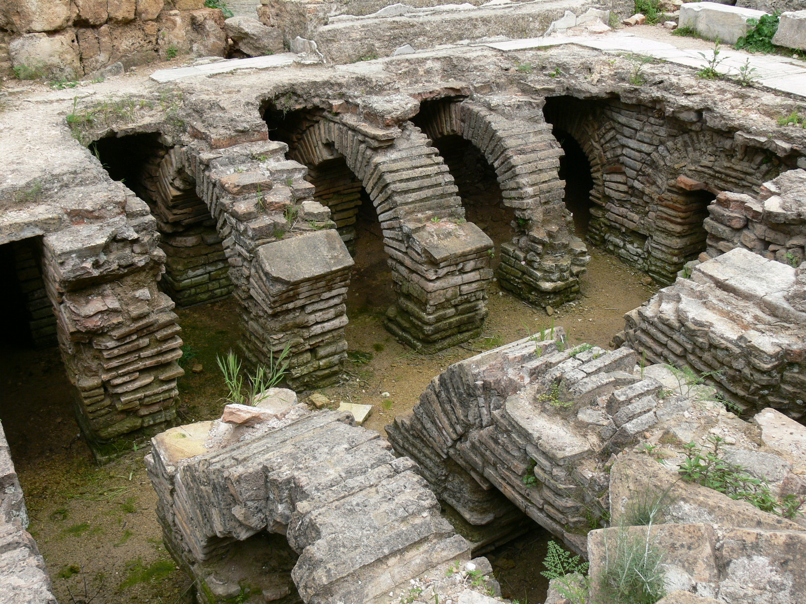 Perge ( Antalya/Turkey ). Ancient Roman baths - Caldarium: Arched hypocaustum.